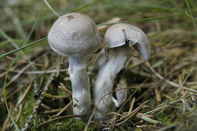 Cortinarius salor from Commanster, Belgium. If you think this is a different taxon, please contact James Lindsey.